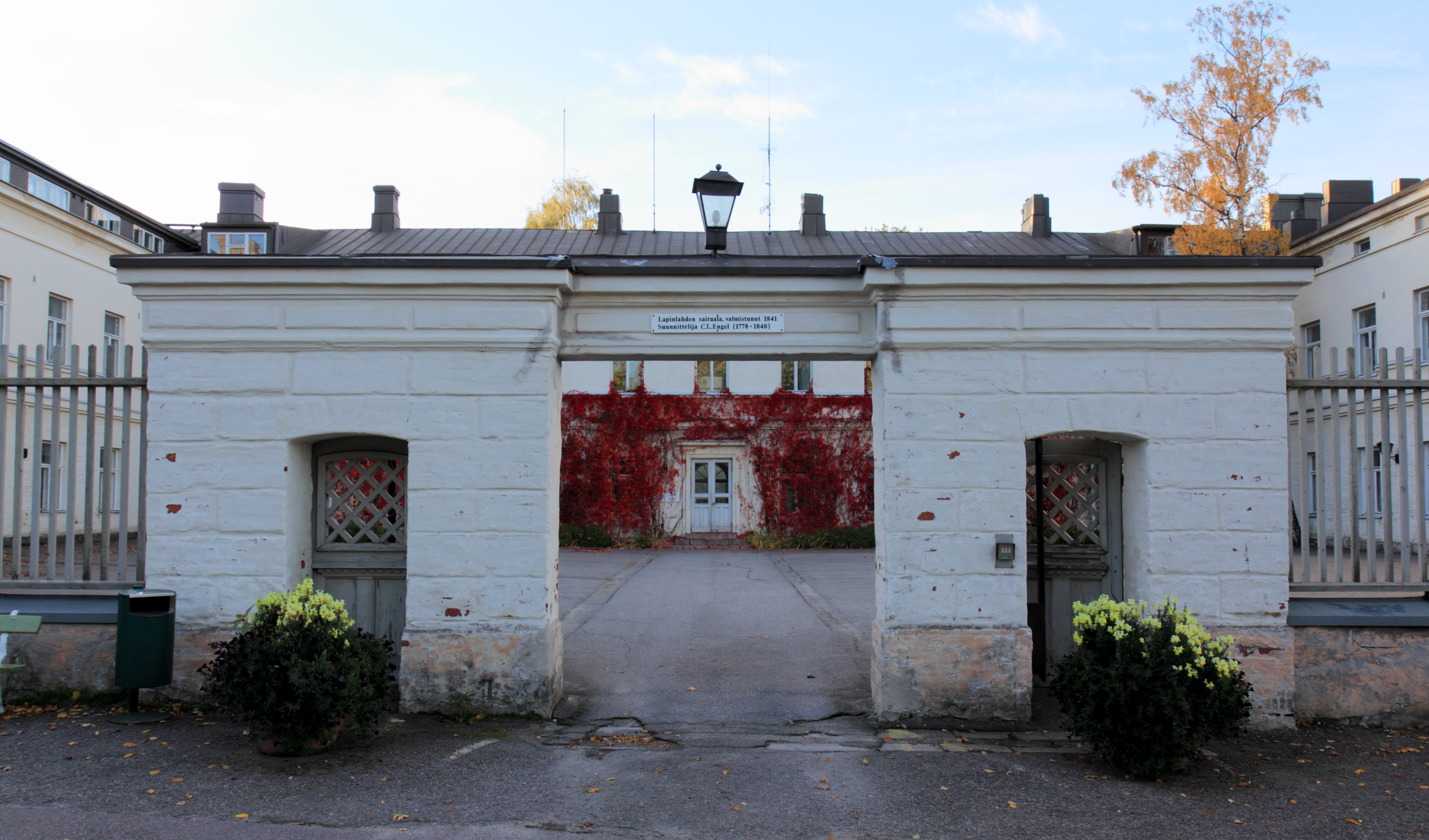 The front gate of Lapinlahti hospital